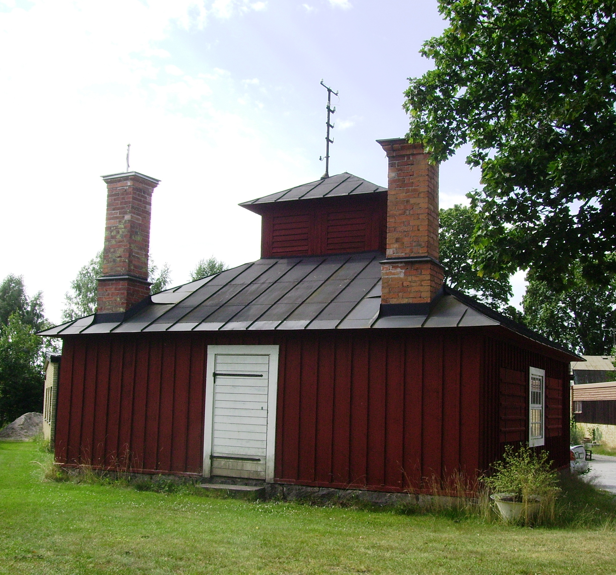 Picture of a military cooking house in Malmköping, Södermanland, Sweden.